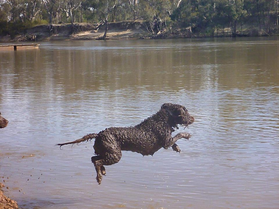 Stella can and does jump from Duck punts and banks in pursuit of game.